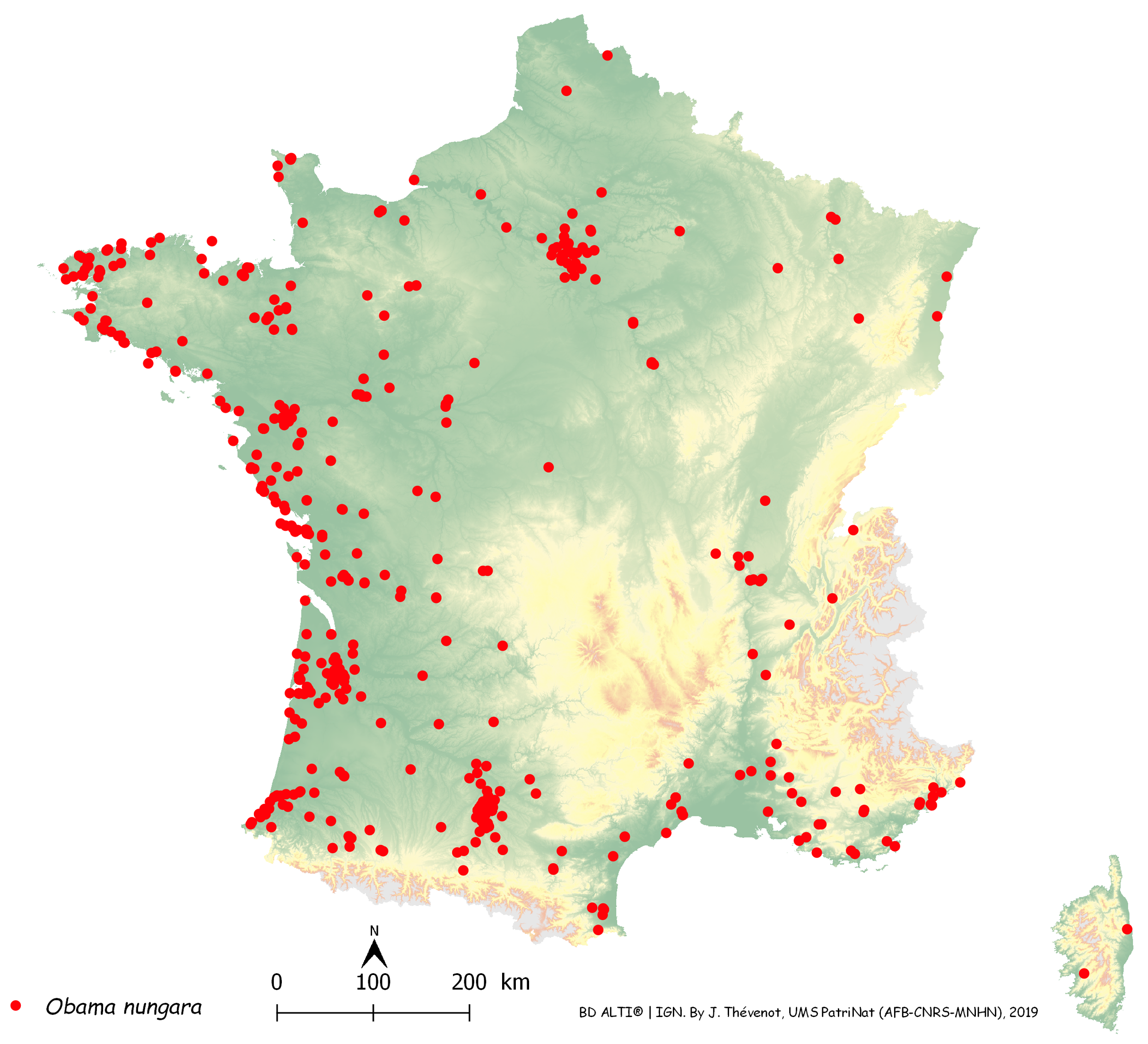 Figure 14 from Article Map of records of Obama nungara in Metropolitan France in the period 2013–2018. Each red dot is a record in the period 2013–2018. Some overlap between dots occurred. Note the concentration of records along the Atlantic and Mediterranean coasts. Mountainous parts (yellow on the map) were not invaded.